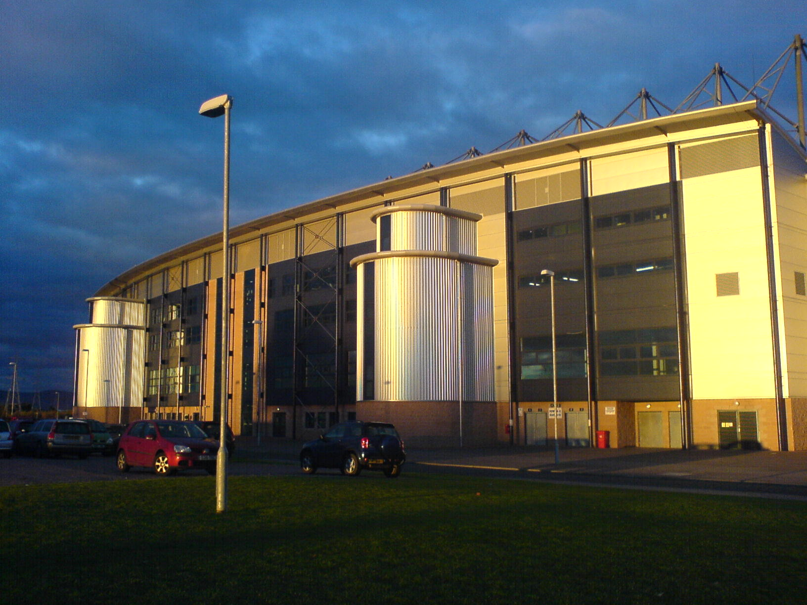 The Main Stand at Falkirk Stadium (tcbuzz 14:00, 13 January 2006 (UTC))